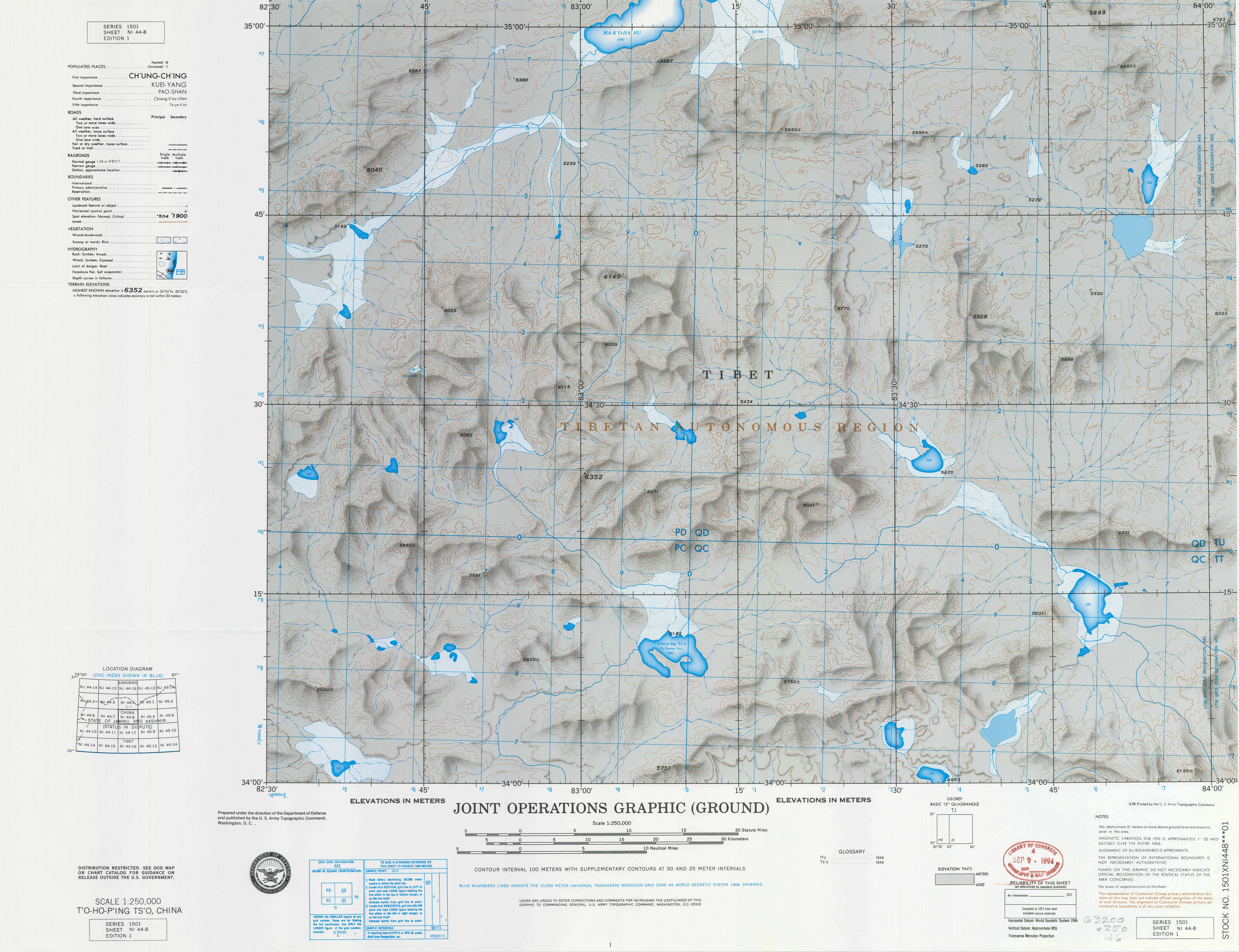 NI-44-8 Tohoping Tso China